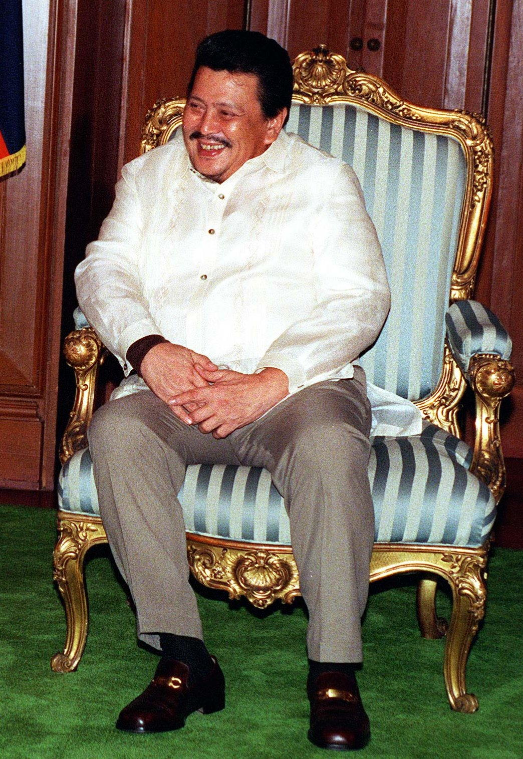 Joseph Estrada, President of the Philippines, during a visit of US Secretary of Defense, William Cohen, at Malacanang Palace on August 3, 1998.